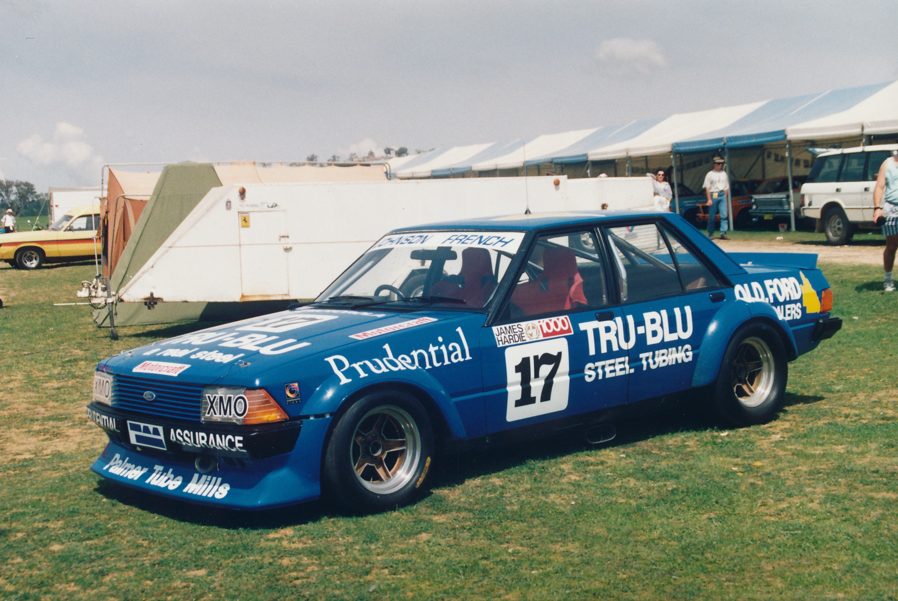 This image is a scan of a print taken at Bathurst in 1991